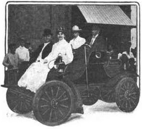 An automobile with four passengers in 1904, including a woman in a long white dress in front.